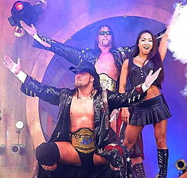 Chris Harris James Storm and Gail Kim aka Americas Most Wanted at TNA Impact taping in Orlando Florida Photo